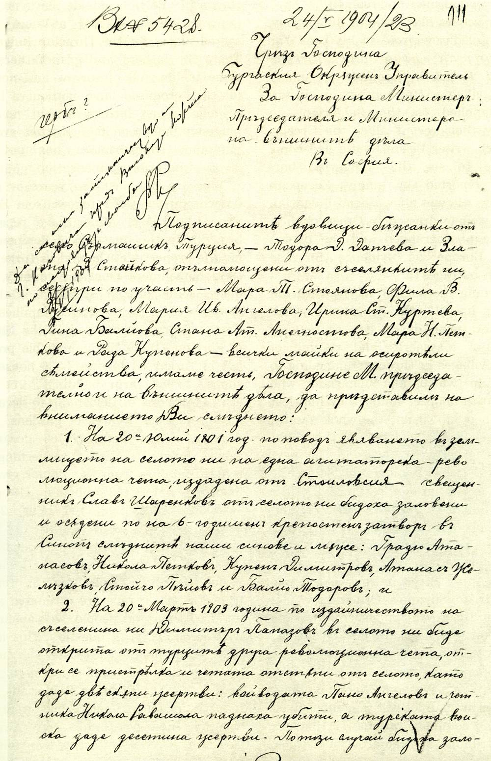 Sarmashik Widows Letter.